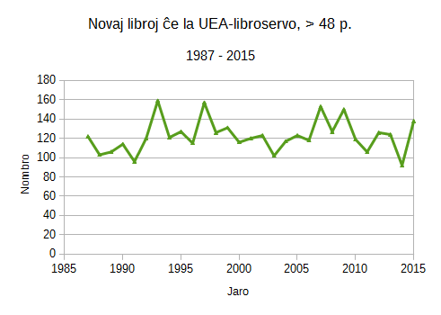 New Esperanto books (at least 49 p.) in the catalogue of the World Esperanto Association, UEA, 1987 - 2015